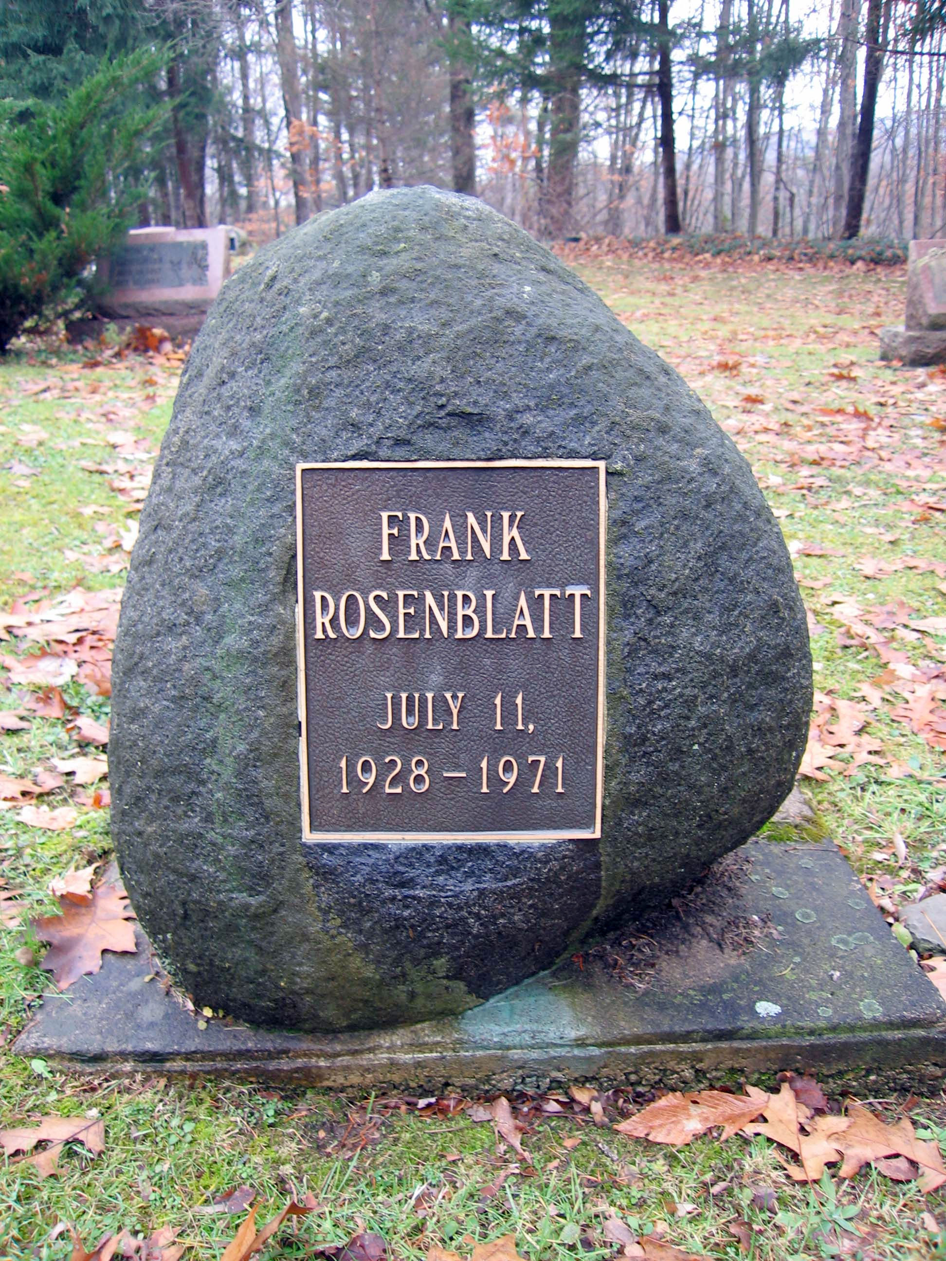 The stone and inscription at the gravesite of Frank Rosenblatt, the inventor of the first Perceptron. The grave is in Brooktondale, New York, USA.